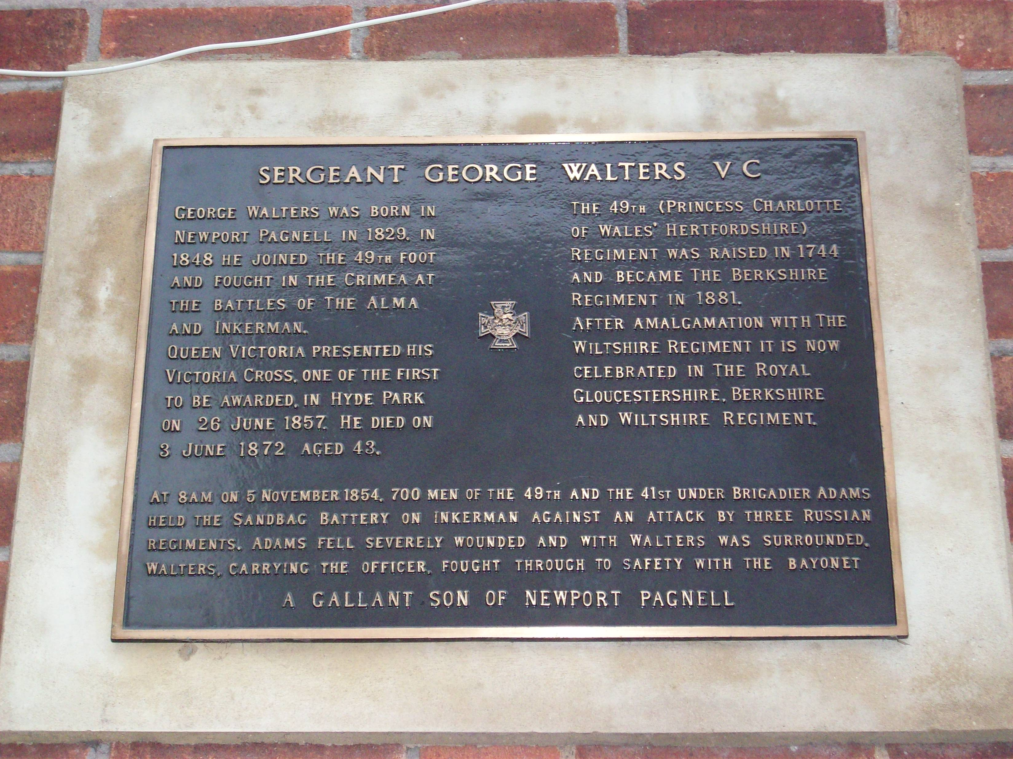 Commemorative Plaque of a Gallant Son of Newport Pagnell